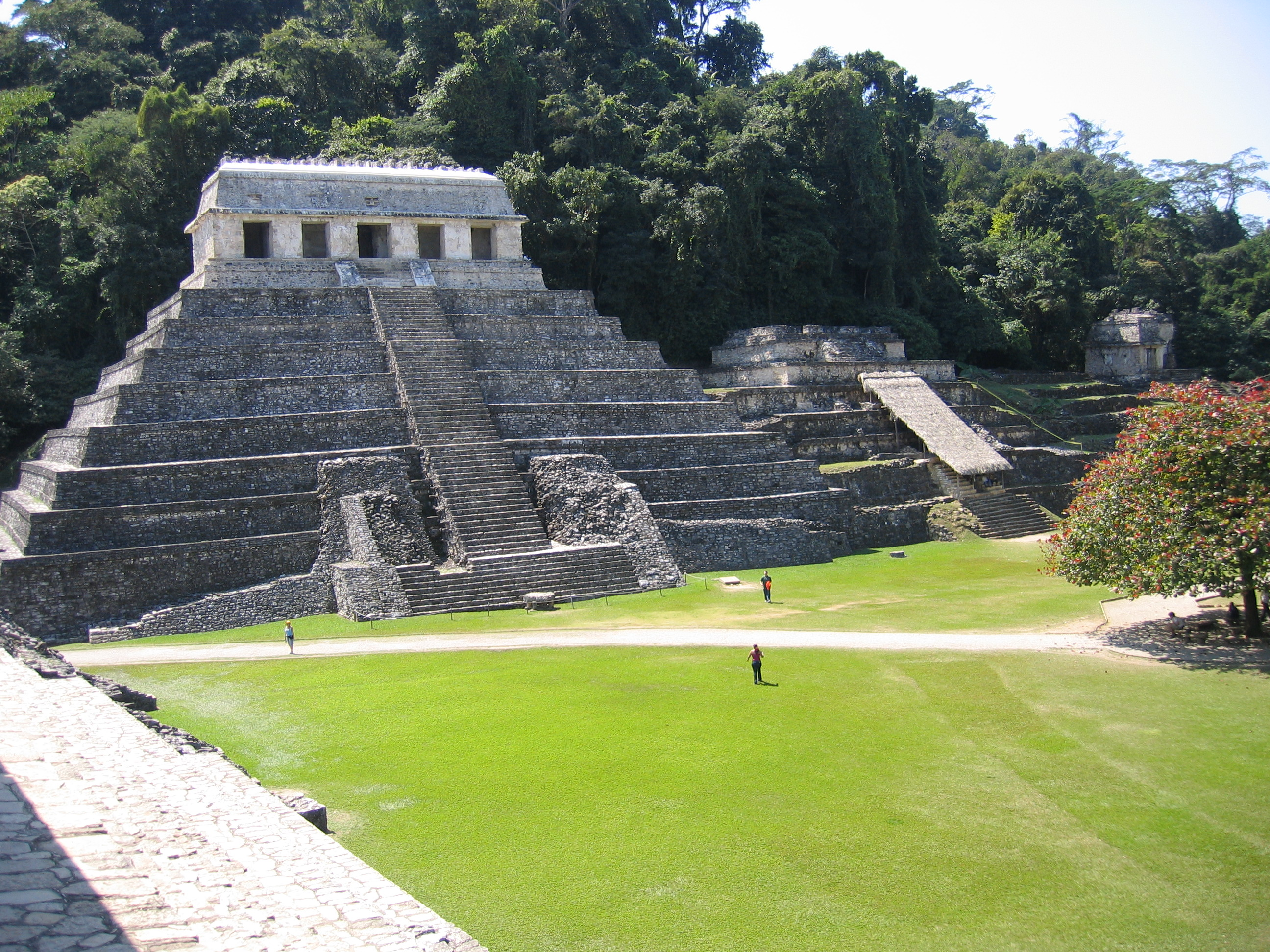 Image from the Mayan ruin site Palenque: Temple of inscriptions